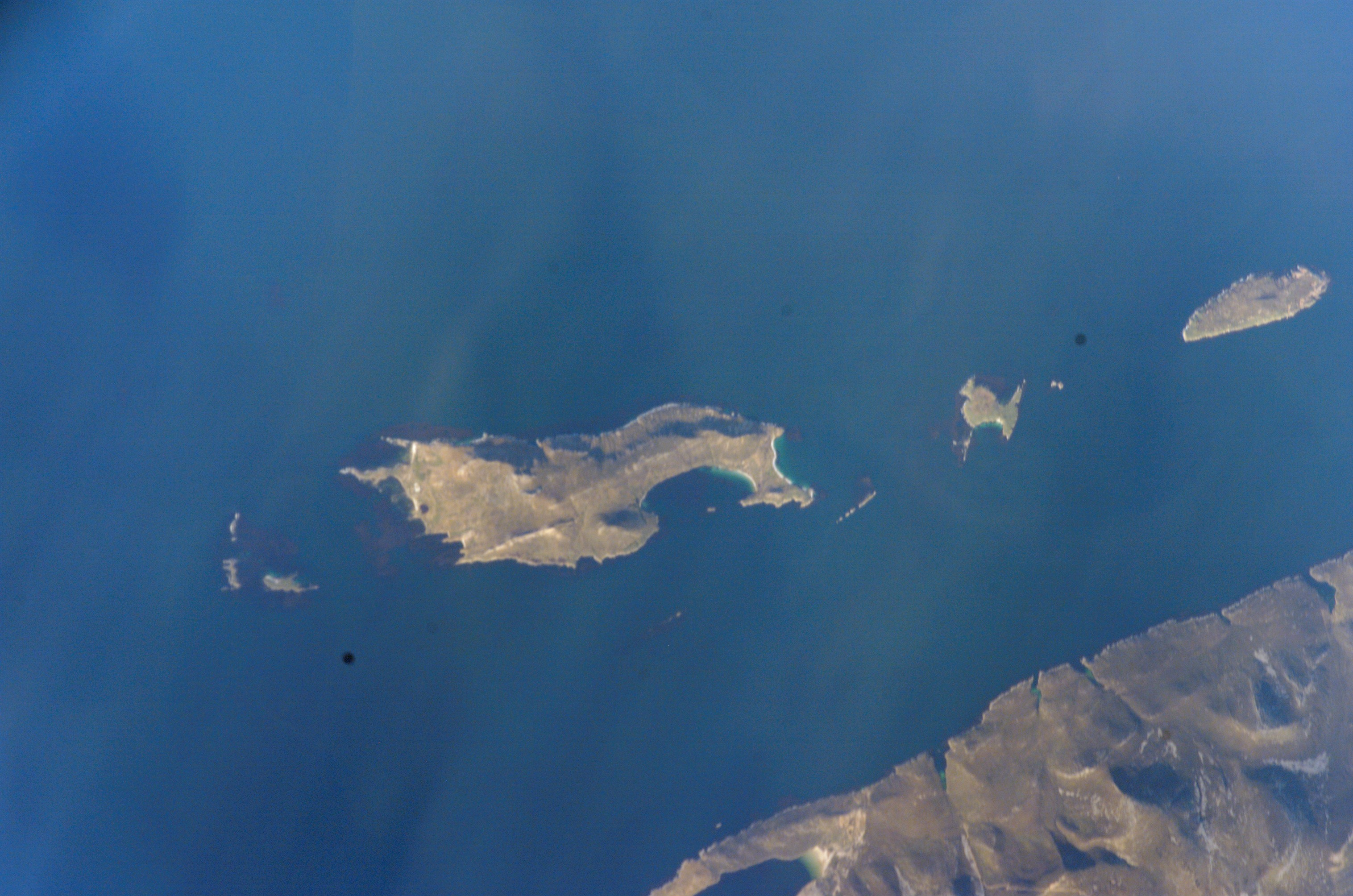 Satellite image of Carcass Island in the Falkland Islands